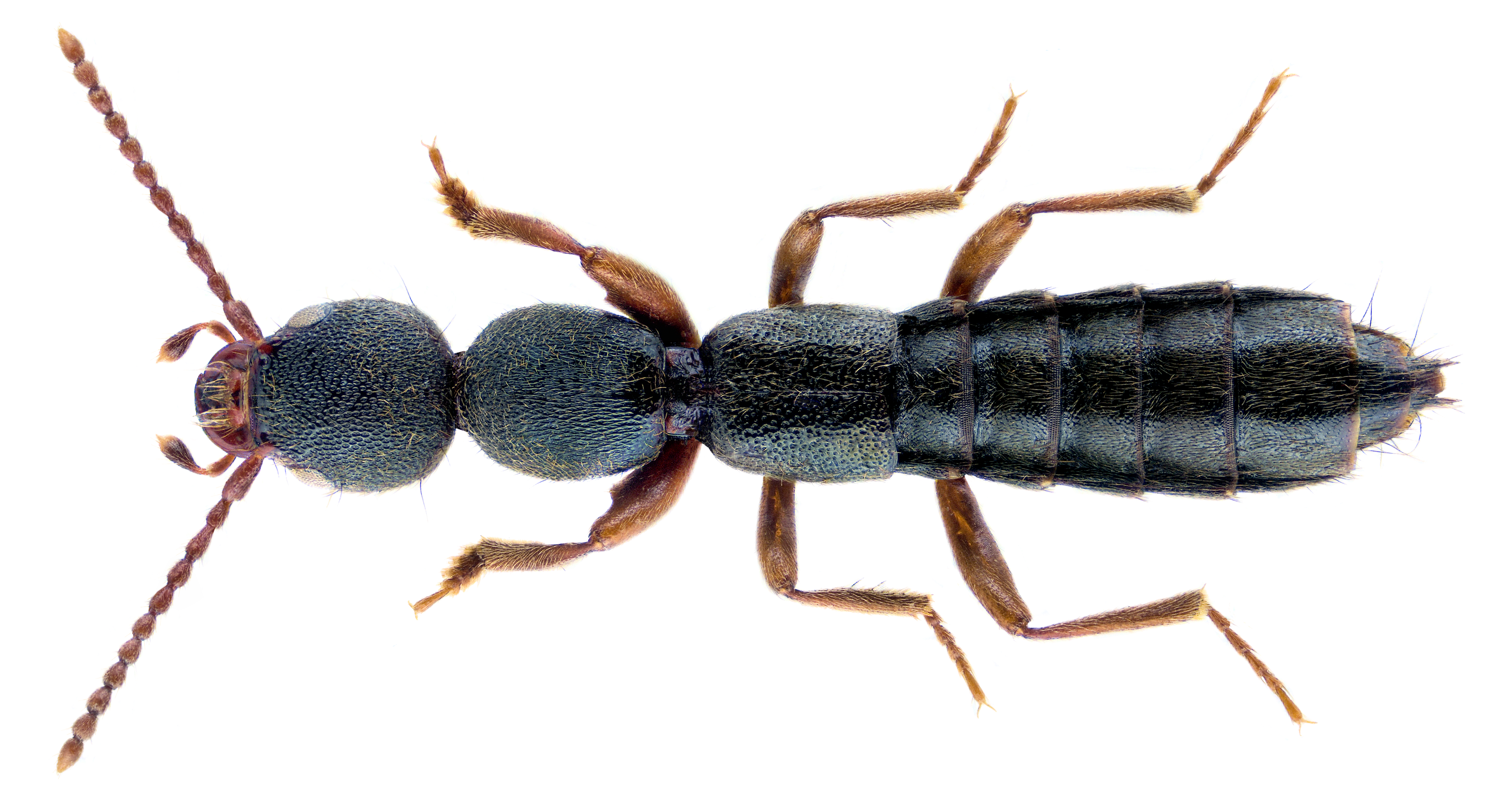 Family: Staphylinidae Size: 6.7 mm (6.2 to 8.2 mm) Origin: Central Europe, parts of southeastern Europe Ecology: Especially in the soil litter of deciduous forests Location: Germany, Bavaria, Upper Franconia, Leuchau, Kessel leg.det. U.Schmidt, 25.IV.1981 Photo: U.Schmidt, 2017